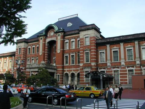 The Marunouchi gate of Tokyo Station (Marunouchi building), Chiyoda W, Tokyo.